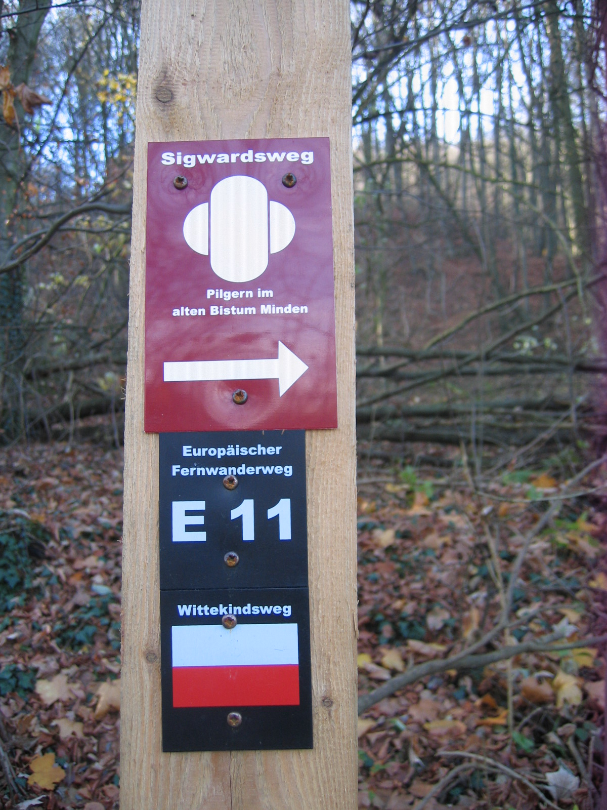 Hiking trail signs near Wilhelm I monument near Porta Westfalica, District of Minden-Lübbecke, North Rhine-Westphalia, Germany.